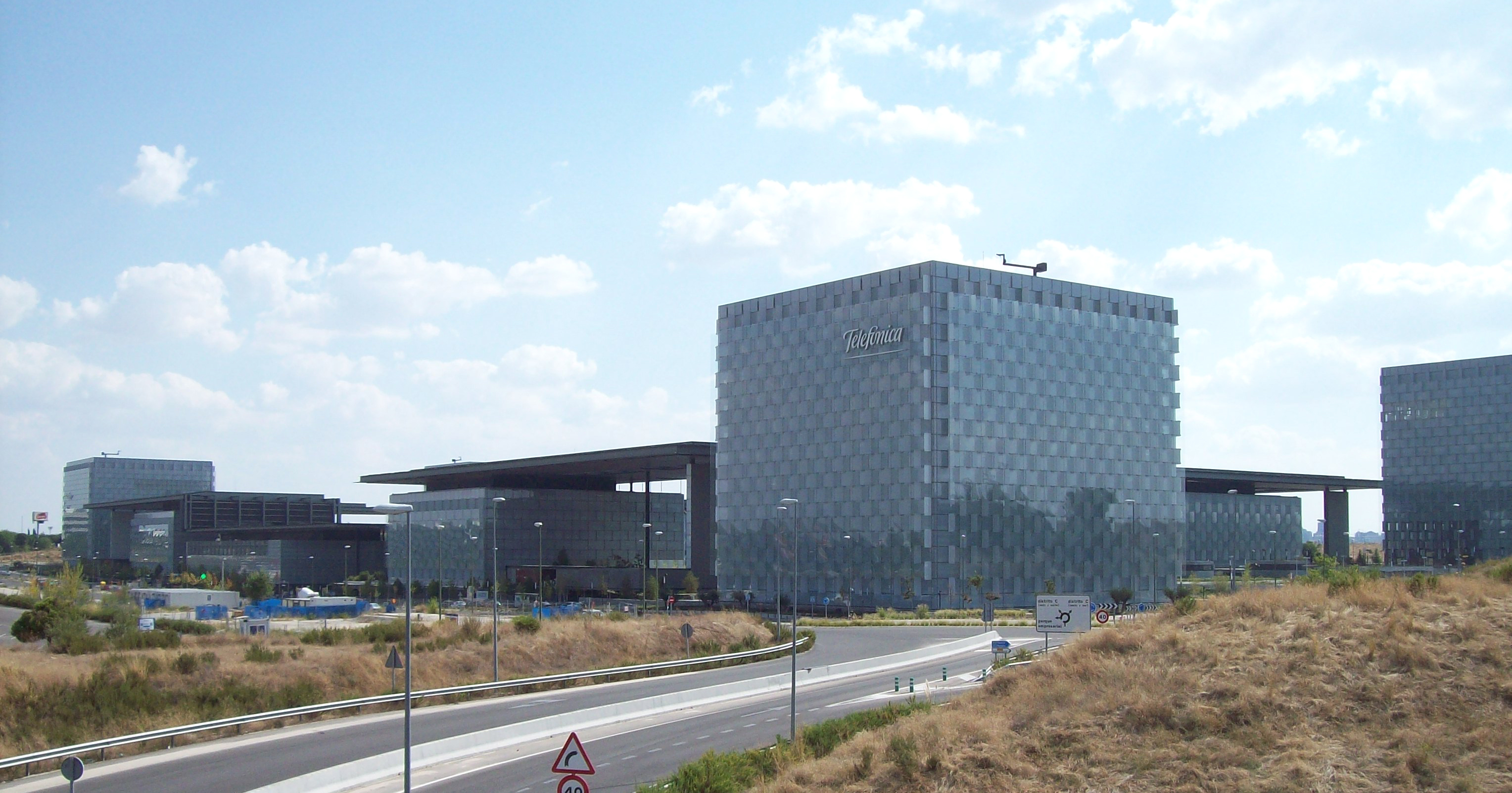 View of Distrito Telefónica in Madrid (Spain).